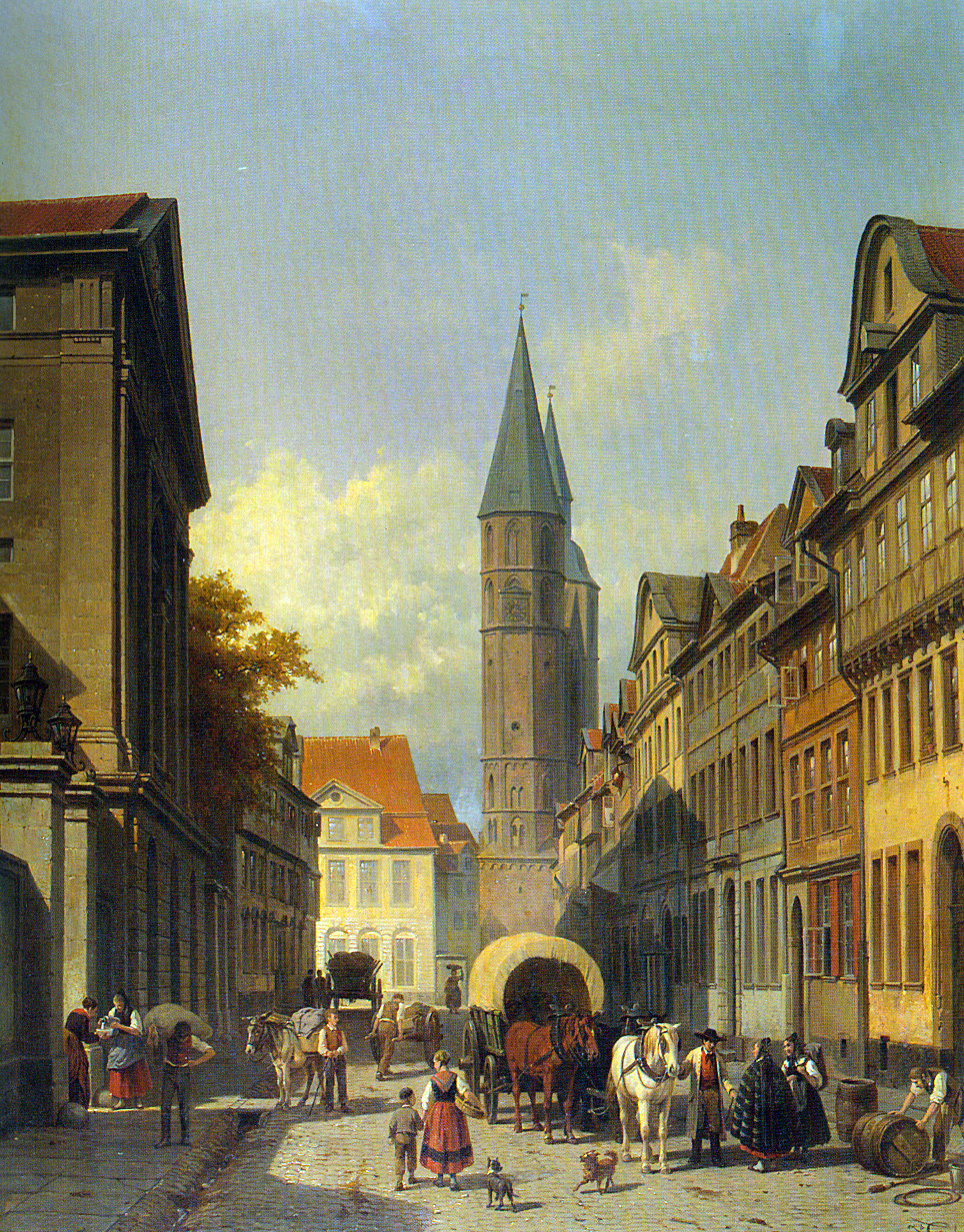 Jacques Carabain : A Busy Street in a German Town